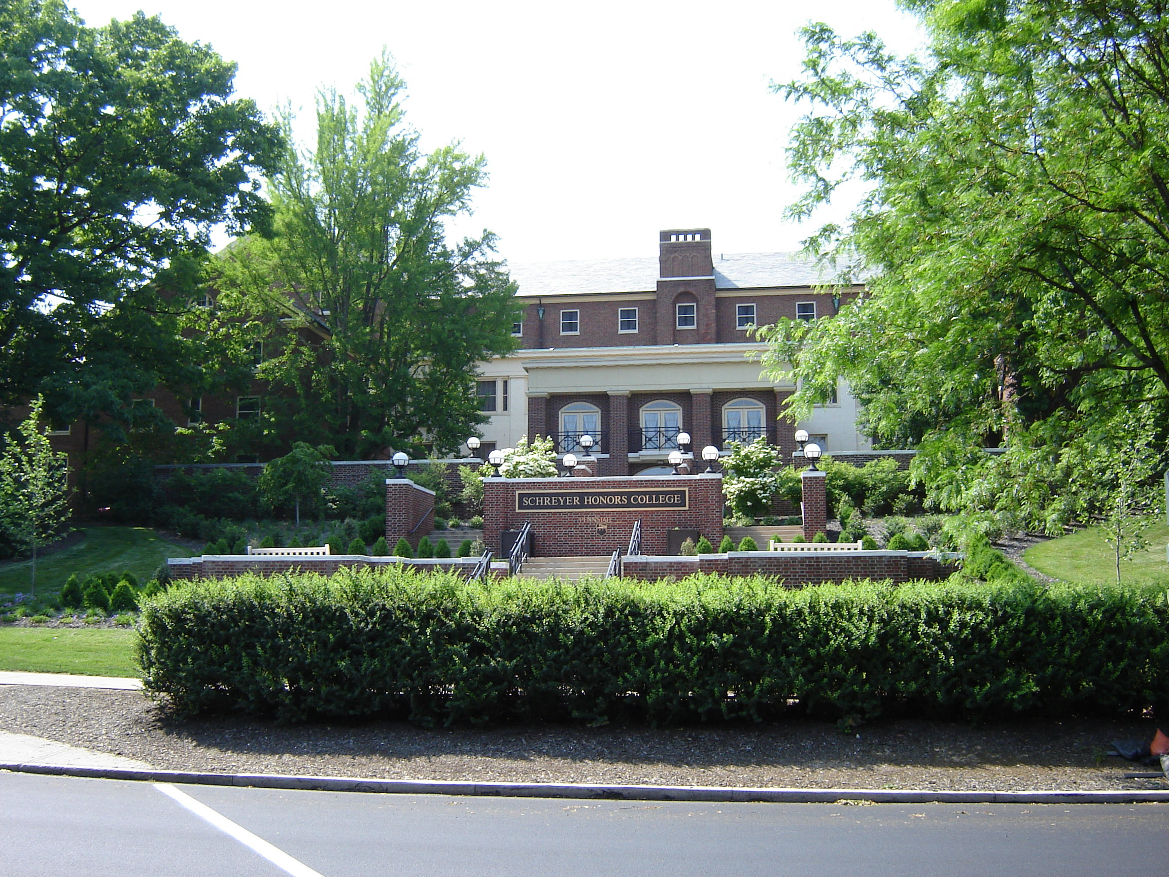 Atherton Hall on the campus of the Pennsylvania State University.